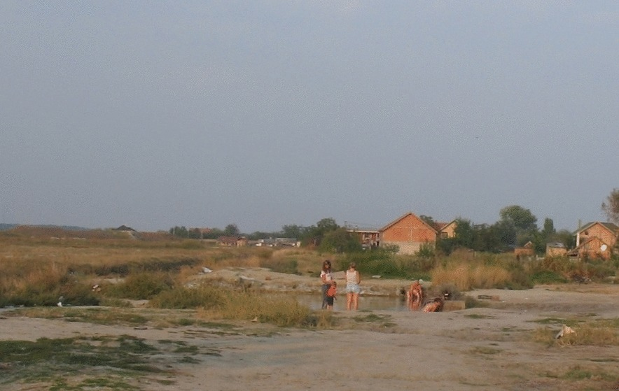 So called "Spa" in Ovča, near Belgrade, Serbia.